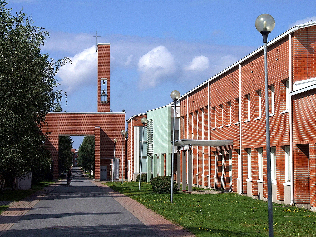 The pedestrian and bicycle way Maikkulanraitti in Maikkula, Oulu, Finland.